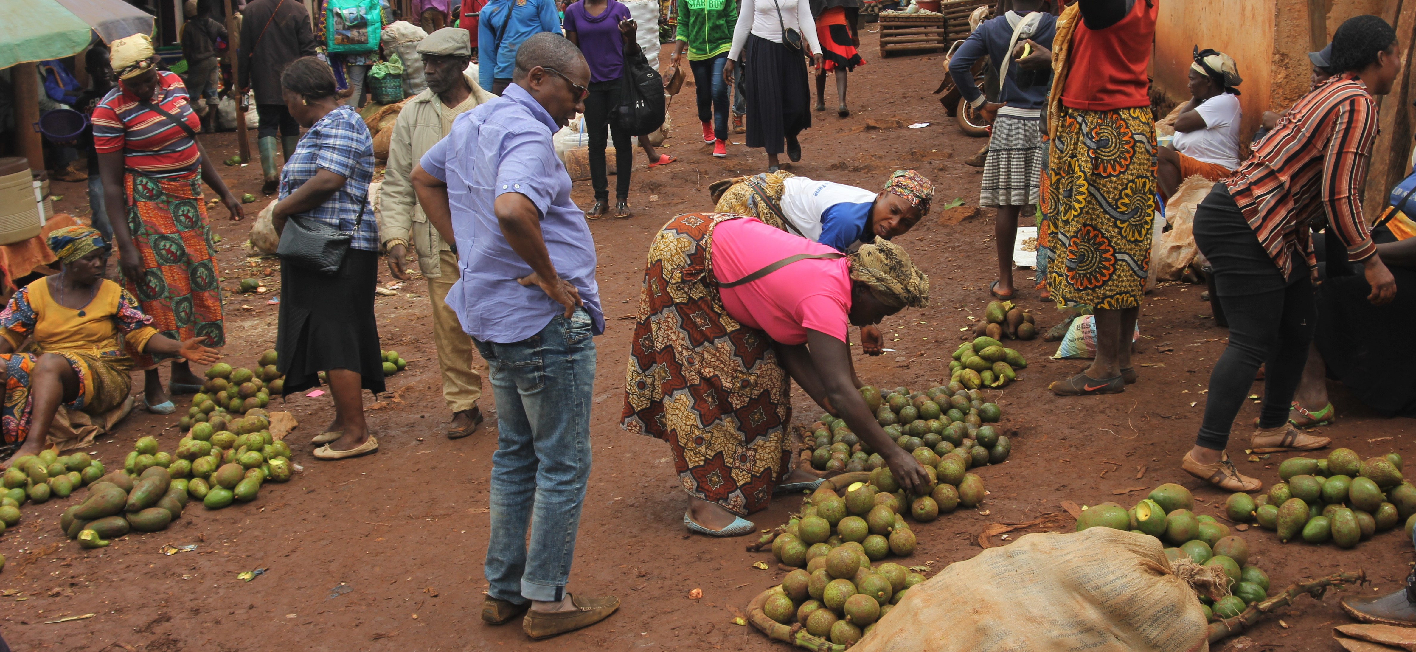 Mbouda in Cameroon is well known destination to buy Avocados. And this is where they sell them. This is an image of "African people at work" from Cameroon